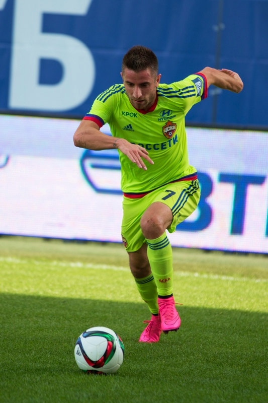 Zoran Tošić